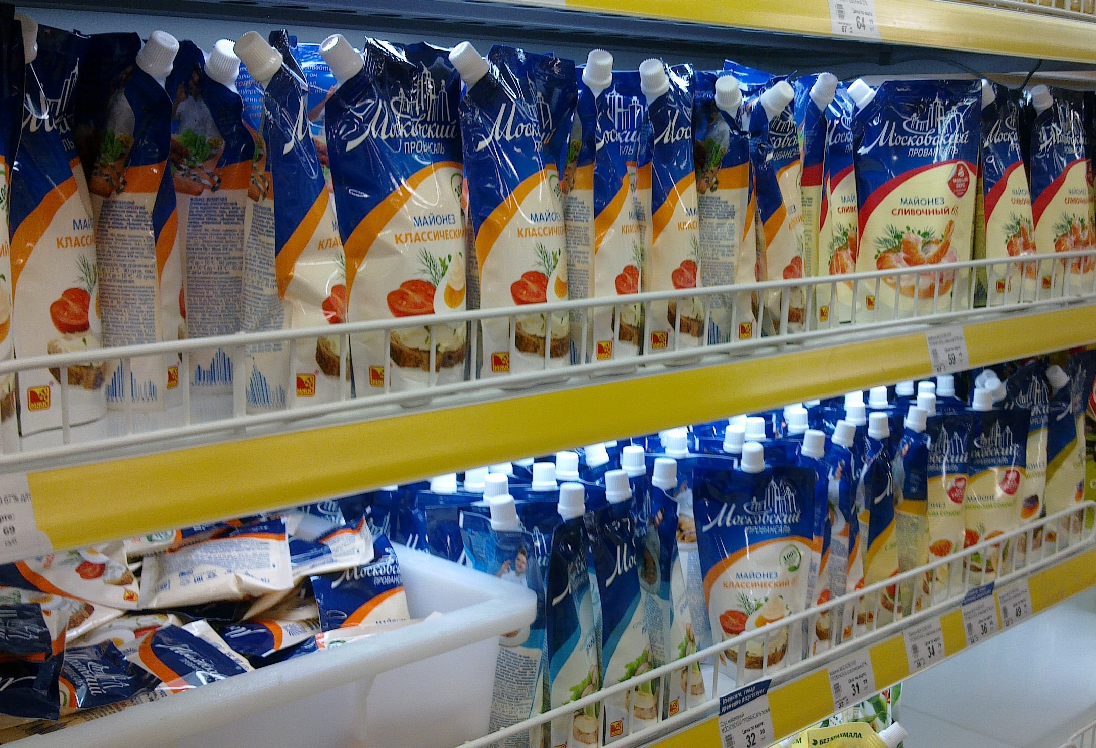 Mayonnaises of the "Moscow provençal" trademark at the grocery store